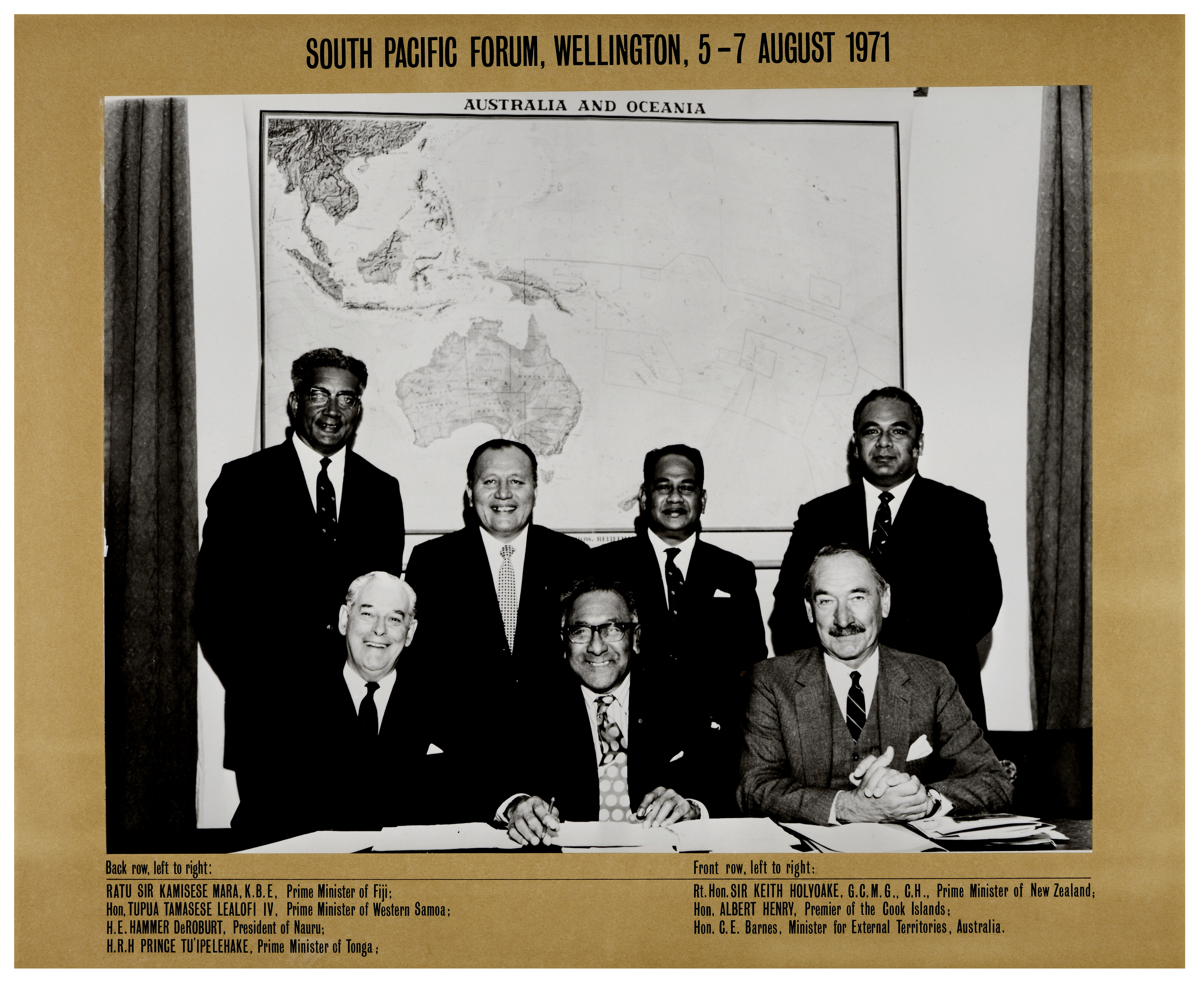 On August 5 1971 the first meeting of the South Pacific Forum took place in Wellington. The first meeting of the South Pacific Forum was initiated by New Zealand and held in Wellington, with attendants of seven countries including the President of Nauru, the Prime Ministers of Western Samoa, Tonga and Fiji, the Premier of the Cook Islands, the Australian Minister for External Territories, and the Prime Minister of New Zealand. It was a private and informal discussion of a wide range of issues of common concern, concentrating on matters directly affecting the daily lives of the people of the islands of the South Pacific, devoting particular attention to trade, shipping, tourism, and education. Afterwards this meeting was held annually in member countries and areas in turn. In 1999, the 30th South Pacific Forum decided to transform into Pacific Islands Forum, with a more extensive and formal way of discussion and organization. This image shown here from the meeting in Wellington is from a Miscellaneous collection of images Archives New Zealand holds. Reference: ACHU 19290 MISC30 8/26 For further enquiries please For updates on our On This Day series and news from Archives New Zealand, follow us on Twitter Material from Archives New Zealand